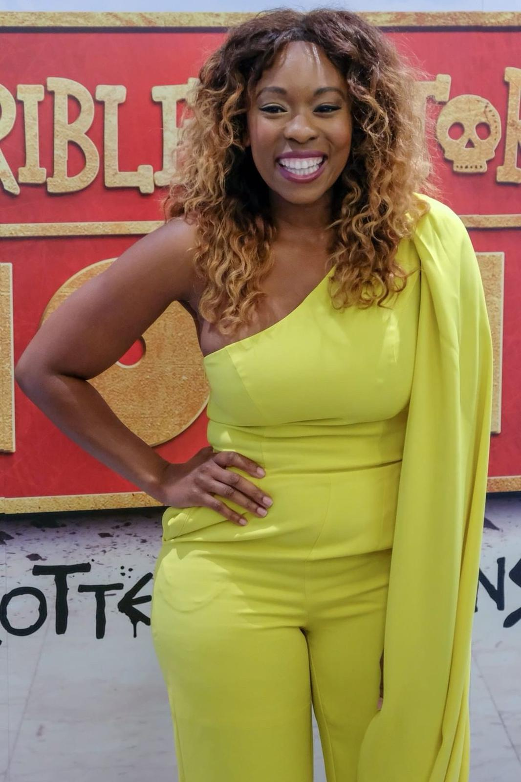 Dominique Moore at Horrible Histories: The Movie Premiere. London 2019